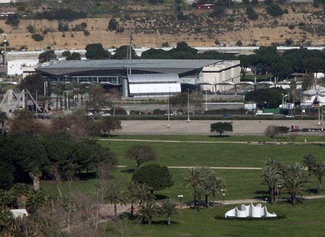 The exhibition centre area